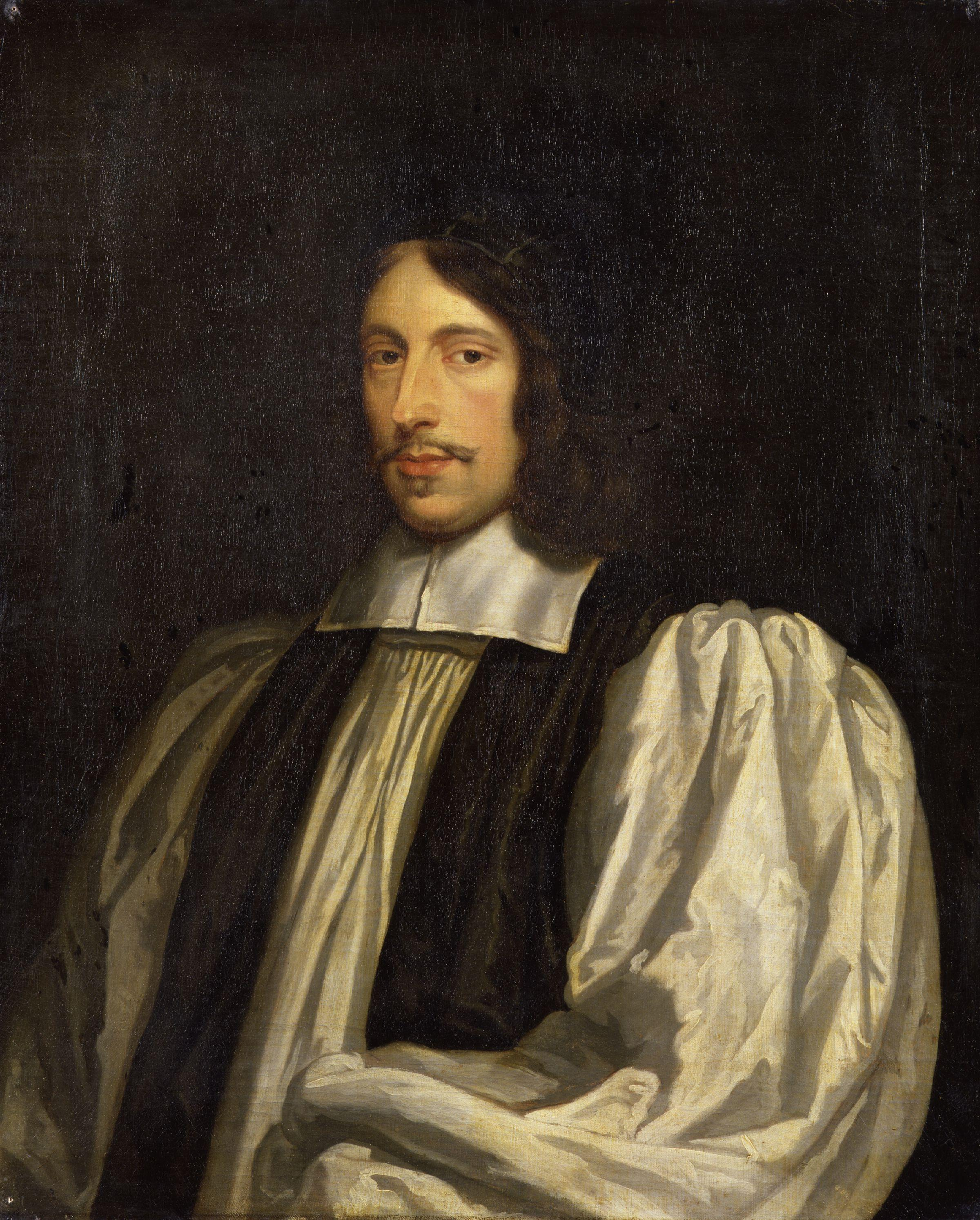 Nathaniel Crew, 3rd Baron Crew, by unknown artist. All images in this batch are listed as "unknown author" by the NPG, who is diligent in researching authors, and was donated to the NPG before 1939 according to their website.